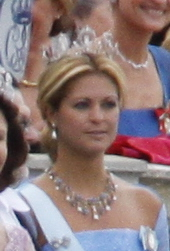 The wedding couple being received by Queen SIlvia, Olle Westling, and Eva Westling. The King, prince Carl Philip, and princess Madeleine in the background